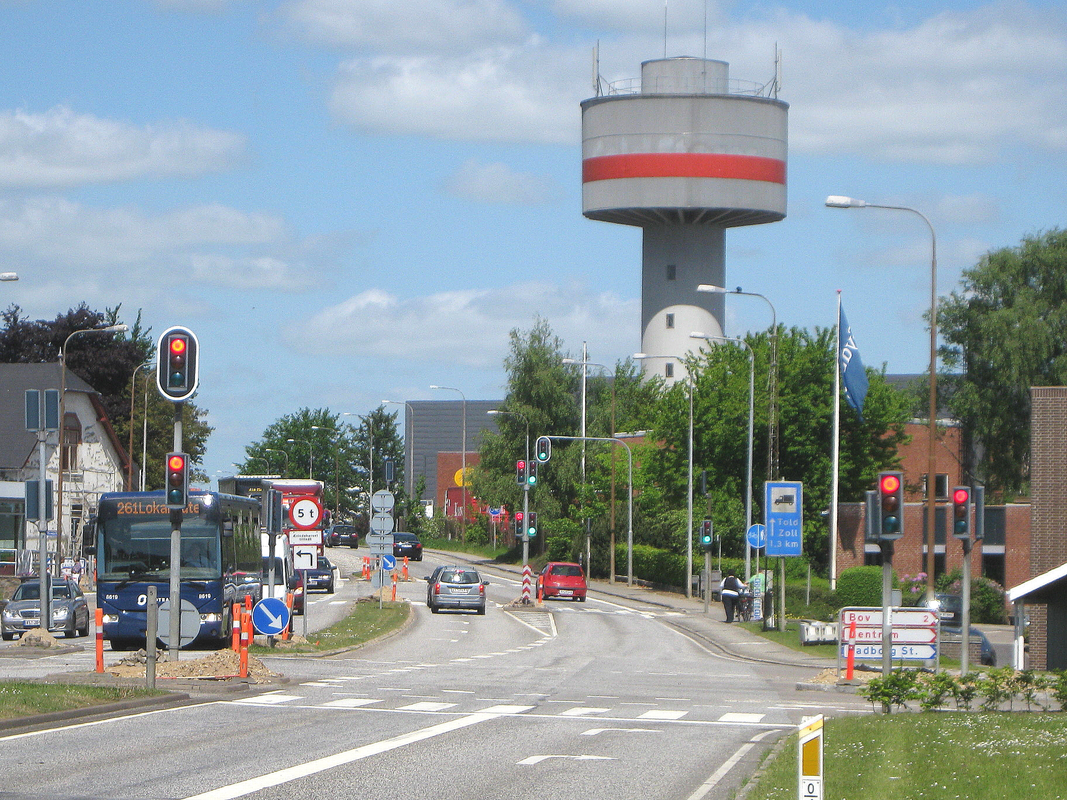 The water tower "Padborg Vandtårn" in the small town "Padborg". The town is located in Southern Jutland, Denmark, close to the German border.